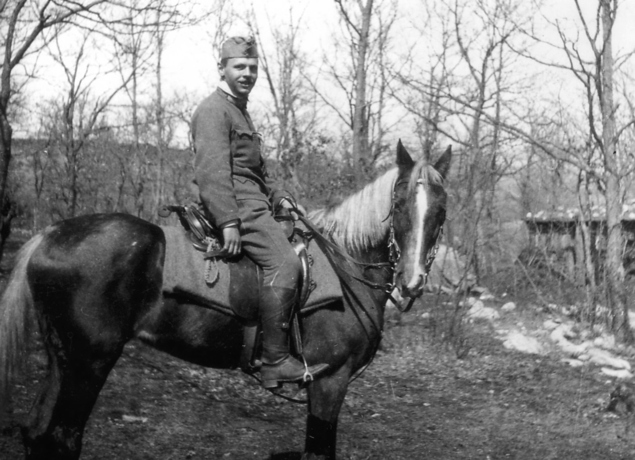 Jenő Rados in 1917.